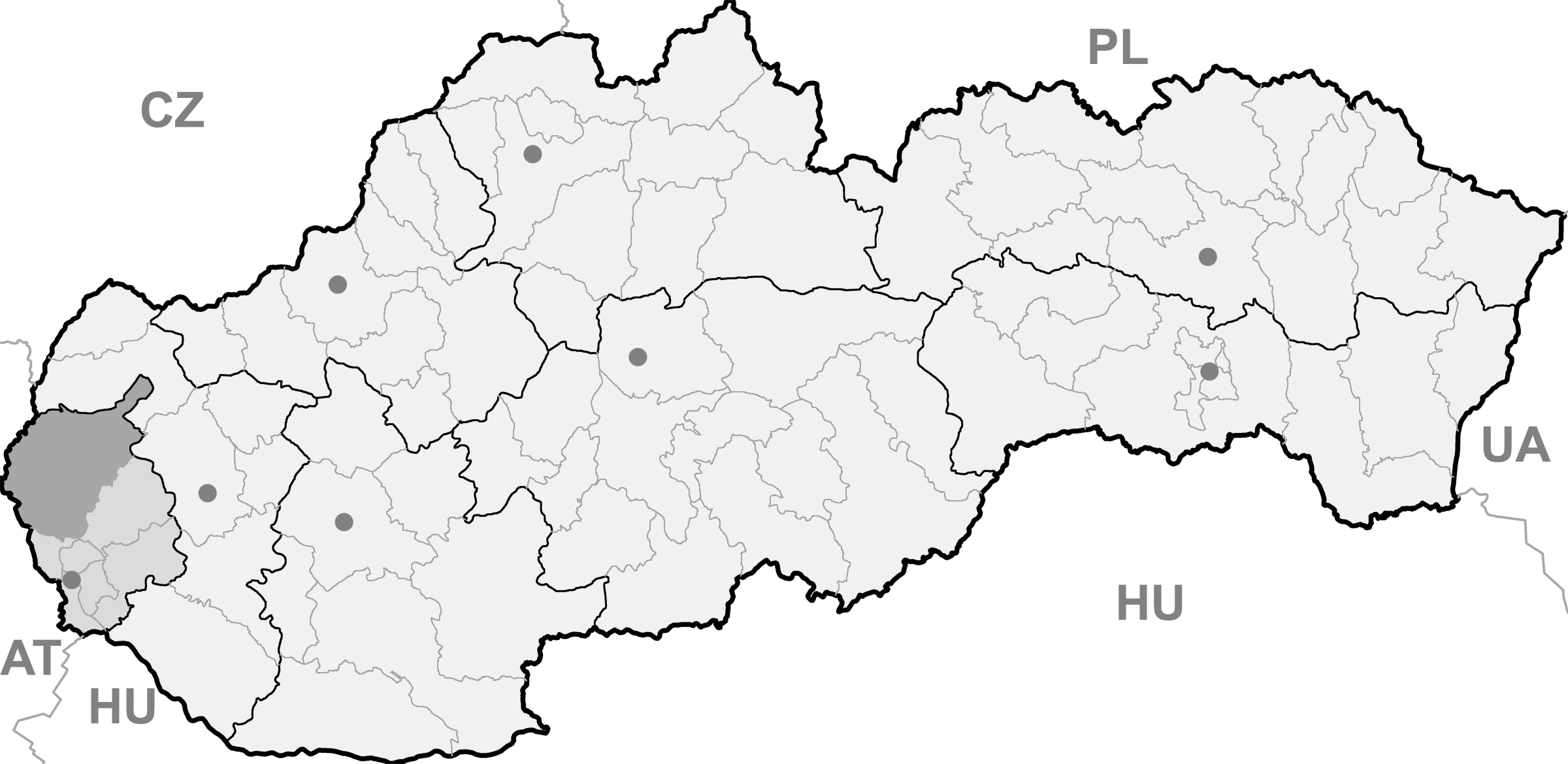 Map of Slovakia, Malacky district and Bratislava region highlighted